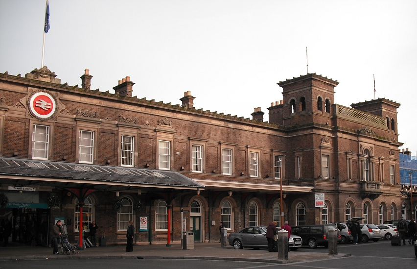 Chester Station